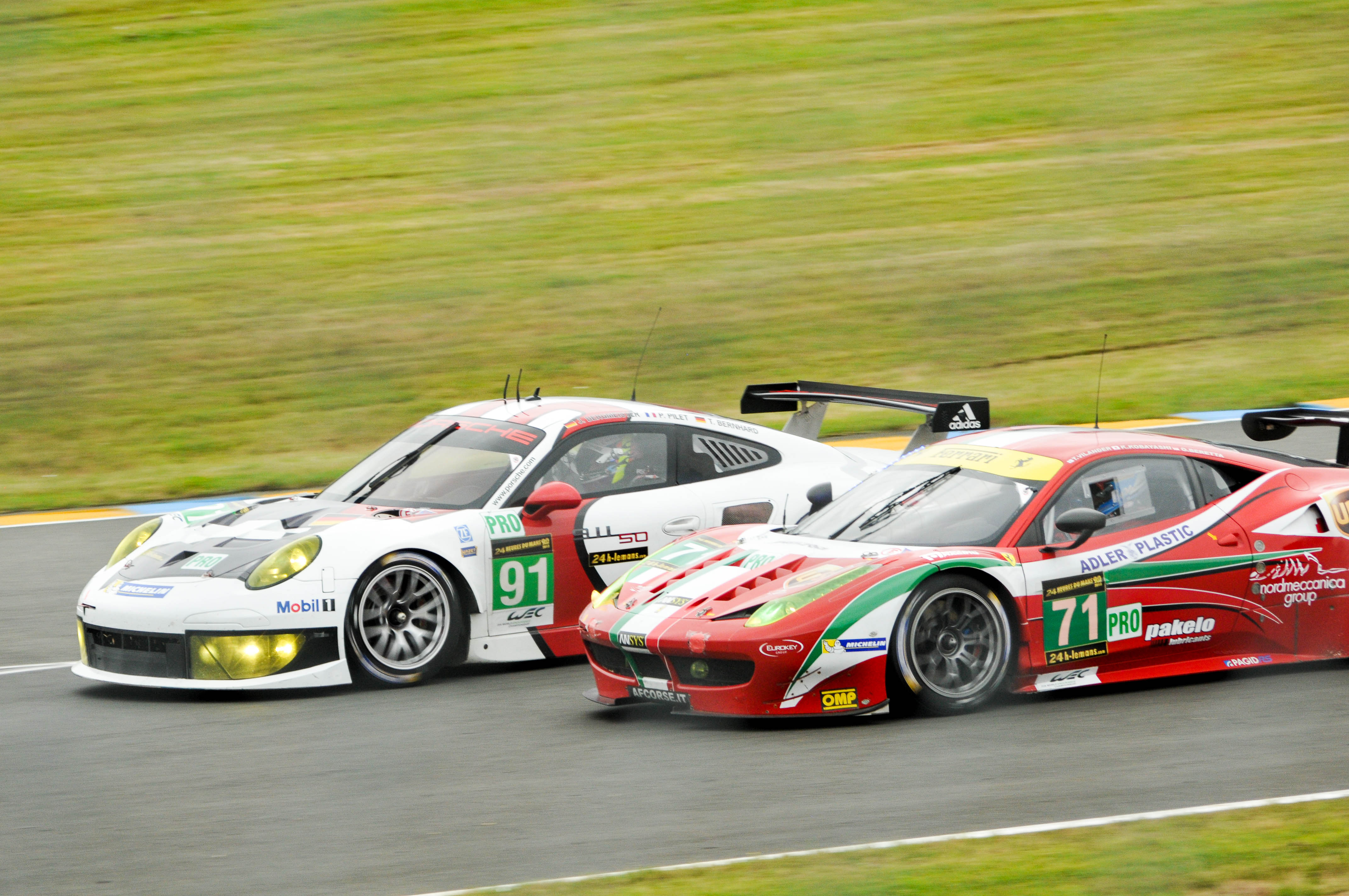 Porsche Team Manthey 911 RSR #91 (left) and AF Corse Ferrari 458 Italia GT2 #71 (right) racing wheel-to-wheel in the LMGTE Pro class at the 2013 24 Hours of Le Mans